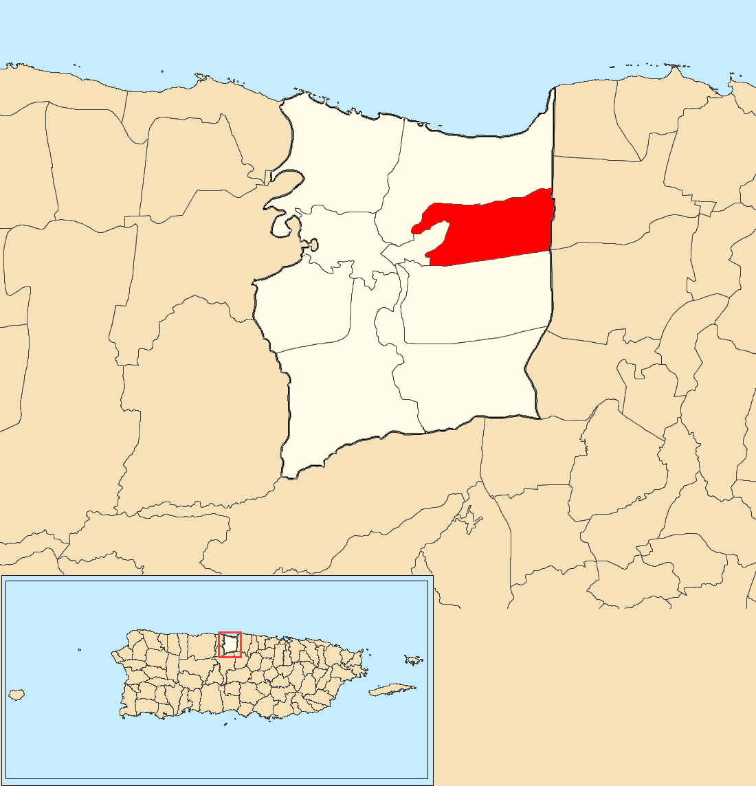 Locator map for barrio in Manatí, Puerto Rico